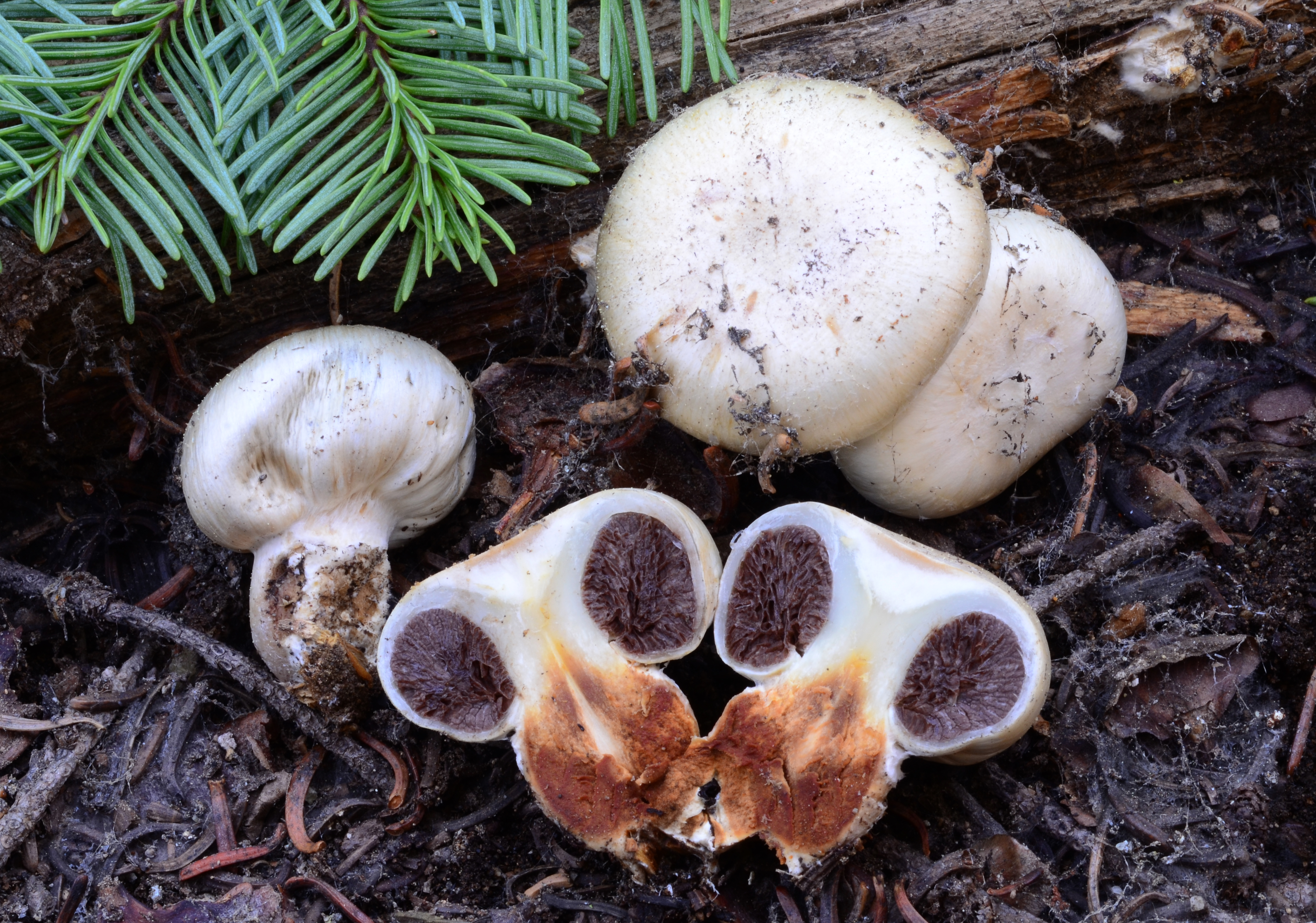 Nivatogastrium nubigenum/Pholiota nubigena (Harkn.) Redhead Image location: Mount Shasta, Shasta-Trinity National Forest, Siskiyou Co., California, USA Part of the US Forest Service 2011-2013 Southern Cascades Fungi Survey. Use of these public domain images is unrestricted (i.e., free for any use). We ask that you credit the source of the images to the USDA Forest Service. If an individual photographer is listed, we ask you to also credit them by name. Recognized by sight For more information about this, see the observation page at Mushroom Observer.